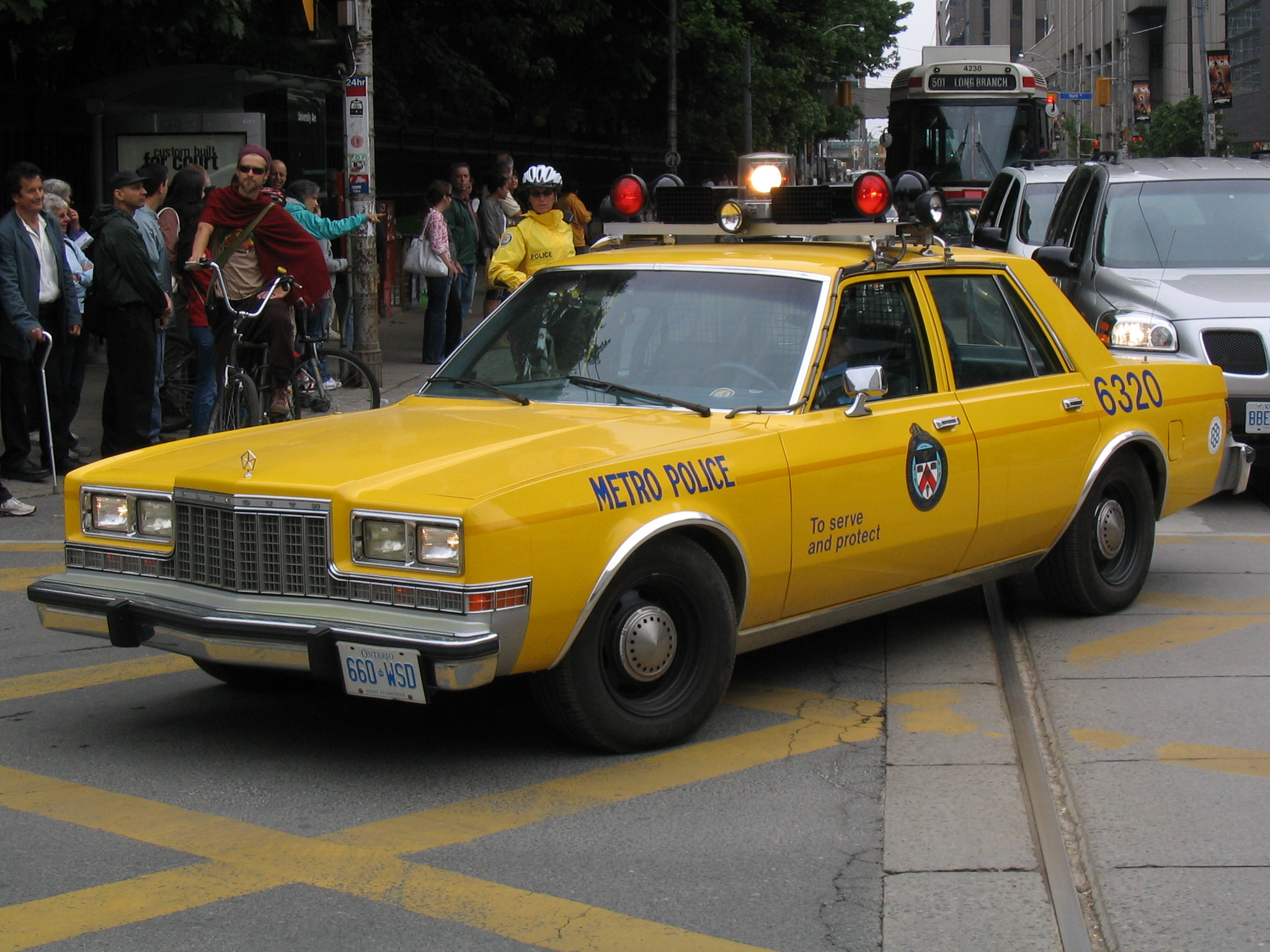 While walking from one Doors Open Toronto 2007 site - the Canada Life Building - to get get to Osgoode Hall there were two parades that passed. One had a bunch of fire, police and ambulance vehicles and I got a couple shots from a decent spot. Like this one of the familiar yellow police car.Yellow Toronto Police Car